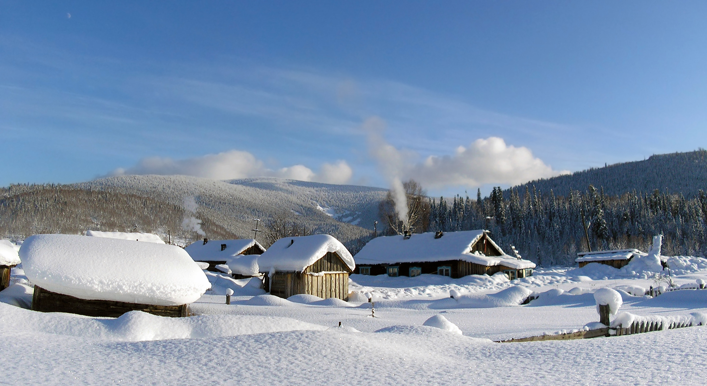 The village of Teba, Kemerovo region, Russia. Snow depth of 1 meter 80 centimeters.